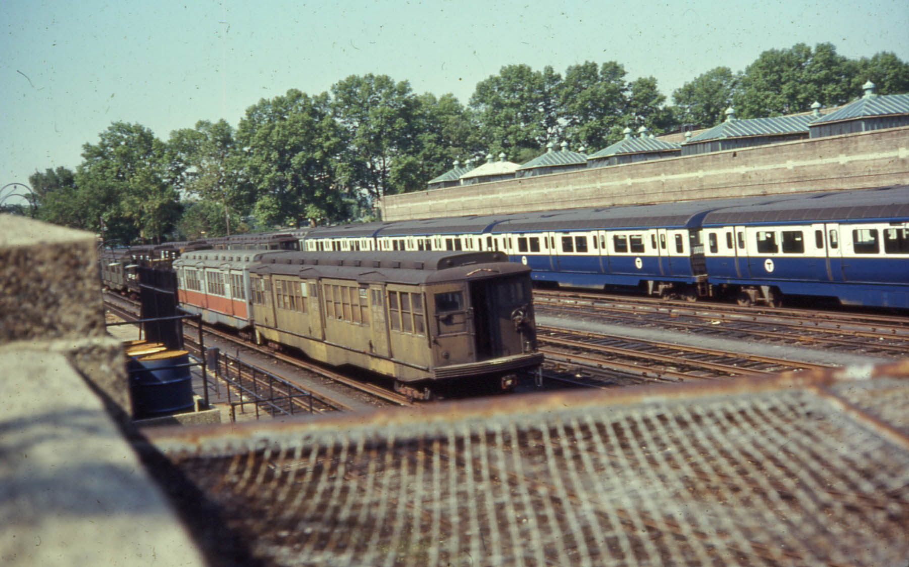 Red Line equipment at Eliot Shops in 1967, before it had been painted to match the line's name